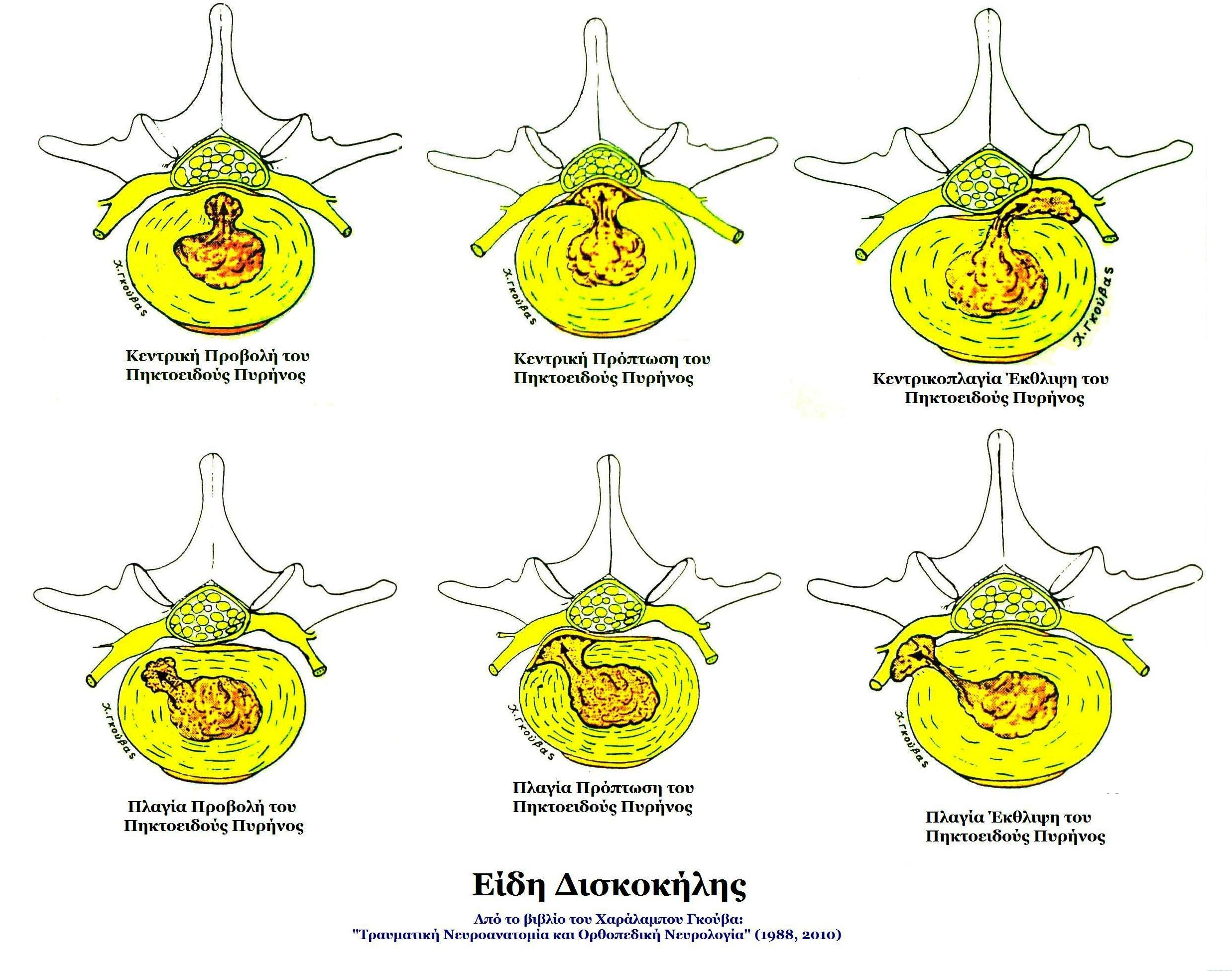 Disc herniation levels